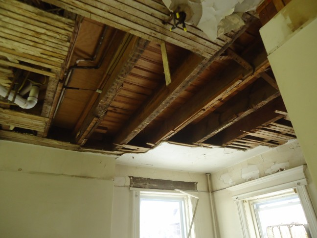 Kitchen renovation project. The lowered ceiling was removed; at this point, much of the plaster and lath in the ceiling was being removed as well so that electricians can later install wires and lights.